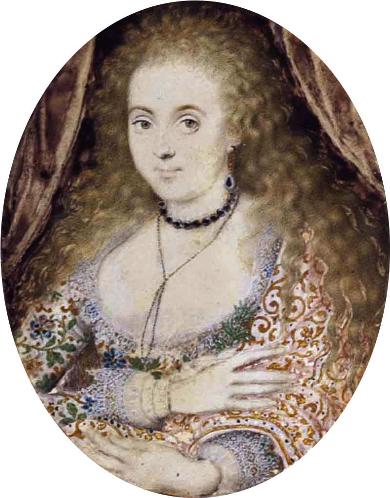 Dorothy Sidney, later Countess of Leicester, née Percy (c. 1598-1659) signed in gold with initials 'IO' (mid-left) on vellum oval, 70 mm high backing card with inscription in ink, 'La. Dorothy Percy Countess of Leicester'